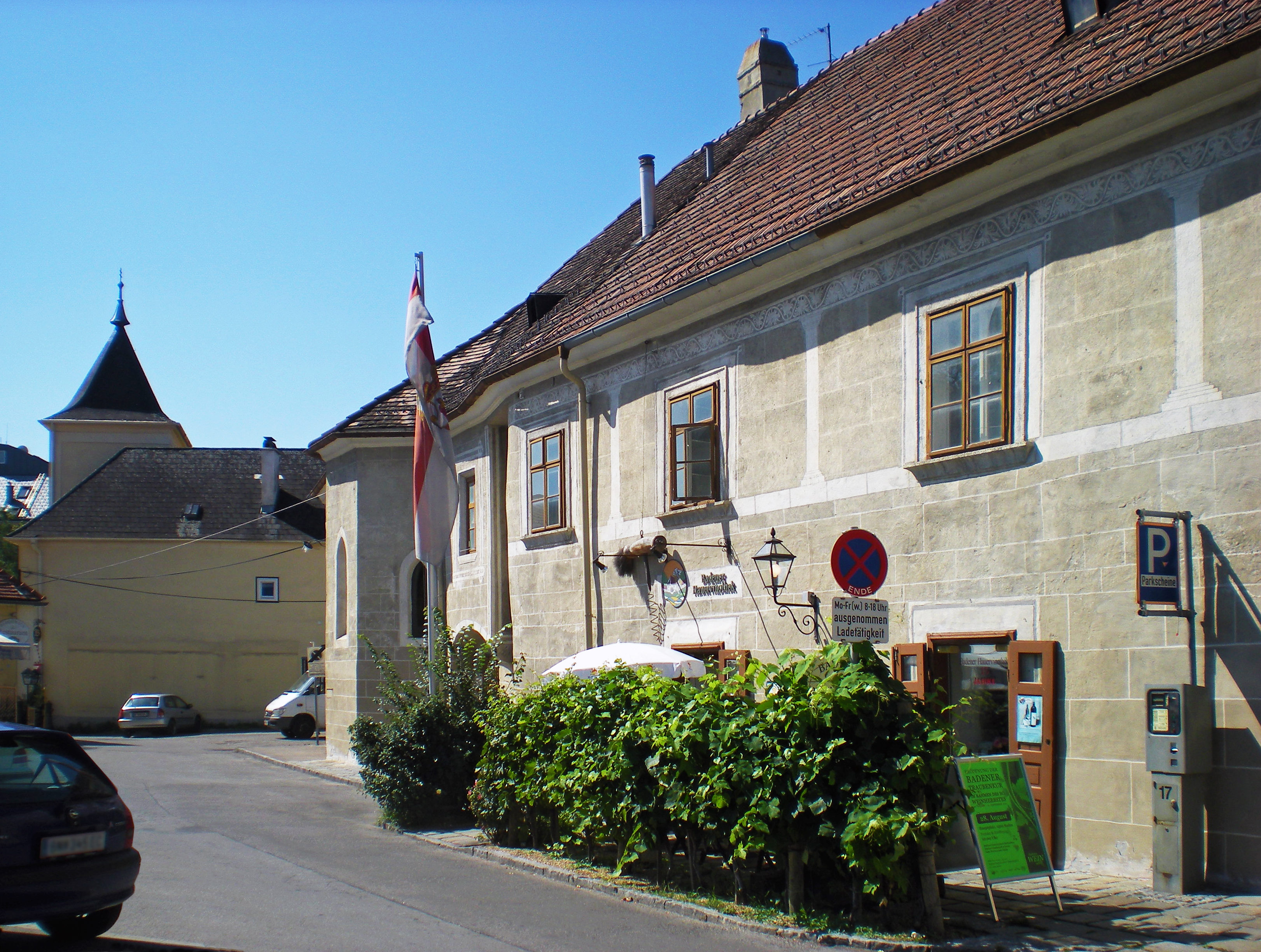 Brusattiplatz, Baden bei Wien, Lower Austria/Niederösterreich